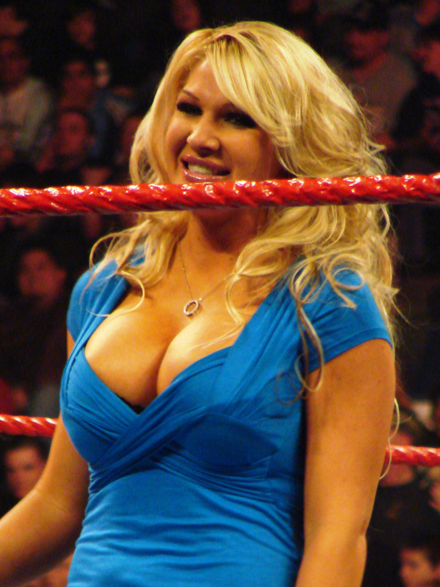 Jillian Hall at WWE Raw. Bradley Center, Milwaukee WI. Cropped and rotated.